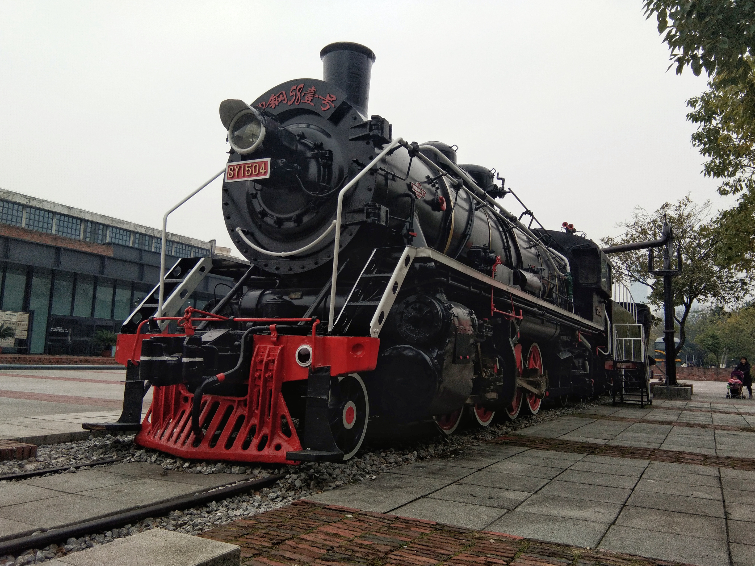 SY 1504 is stored at Liuzhou Industrial Museum.